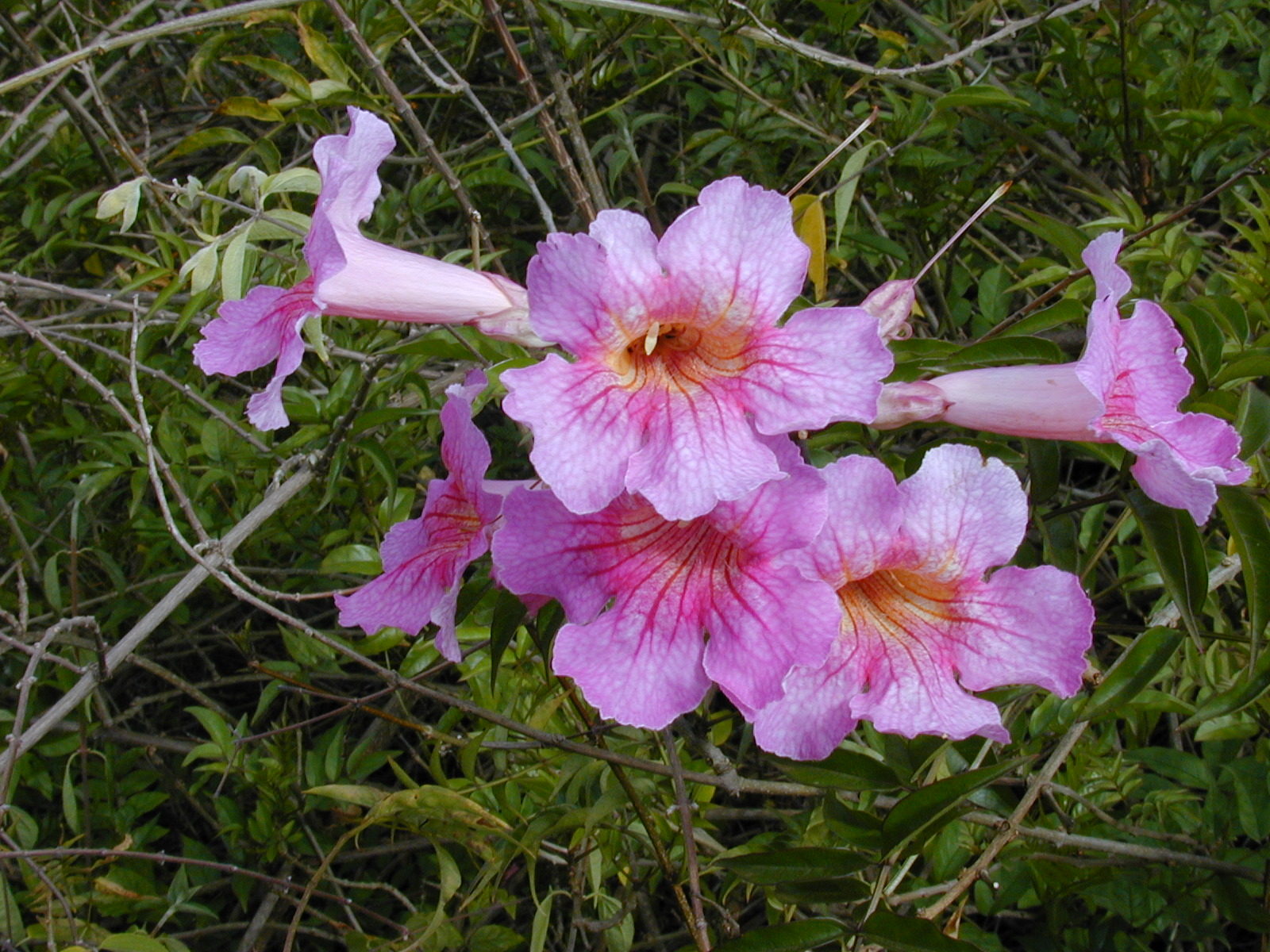 Podranea ricasoliana (flowers). Location: Maui, Kula